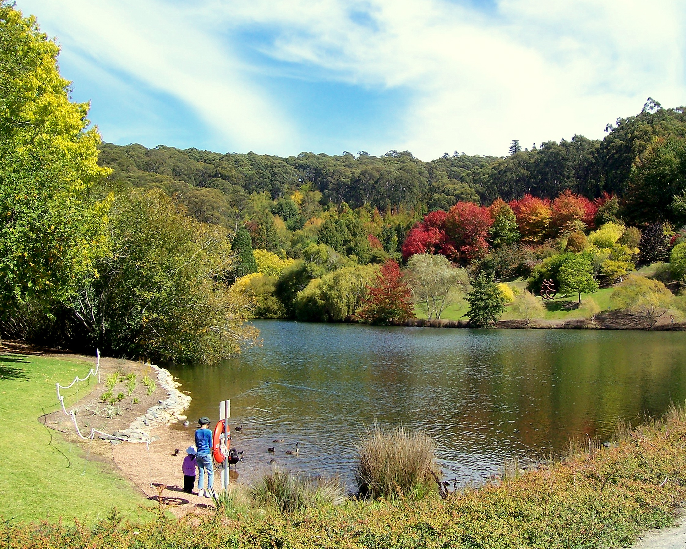 Picture of Mt Lofty Botanic Garden Lake taken April 2006